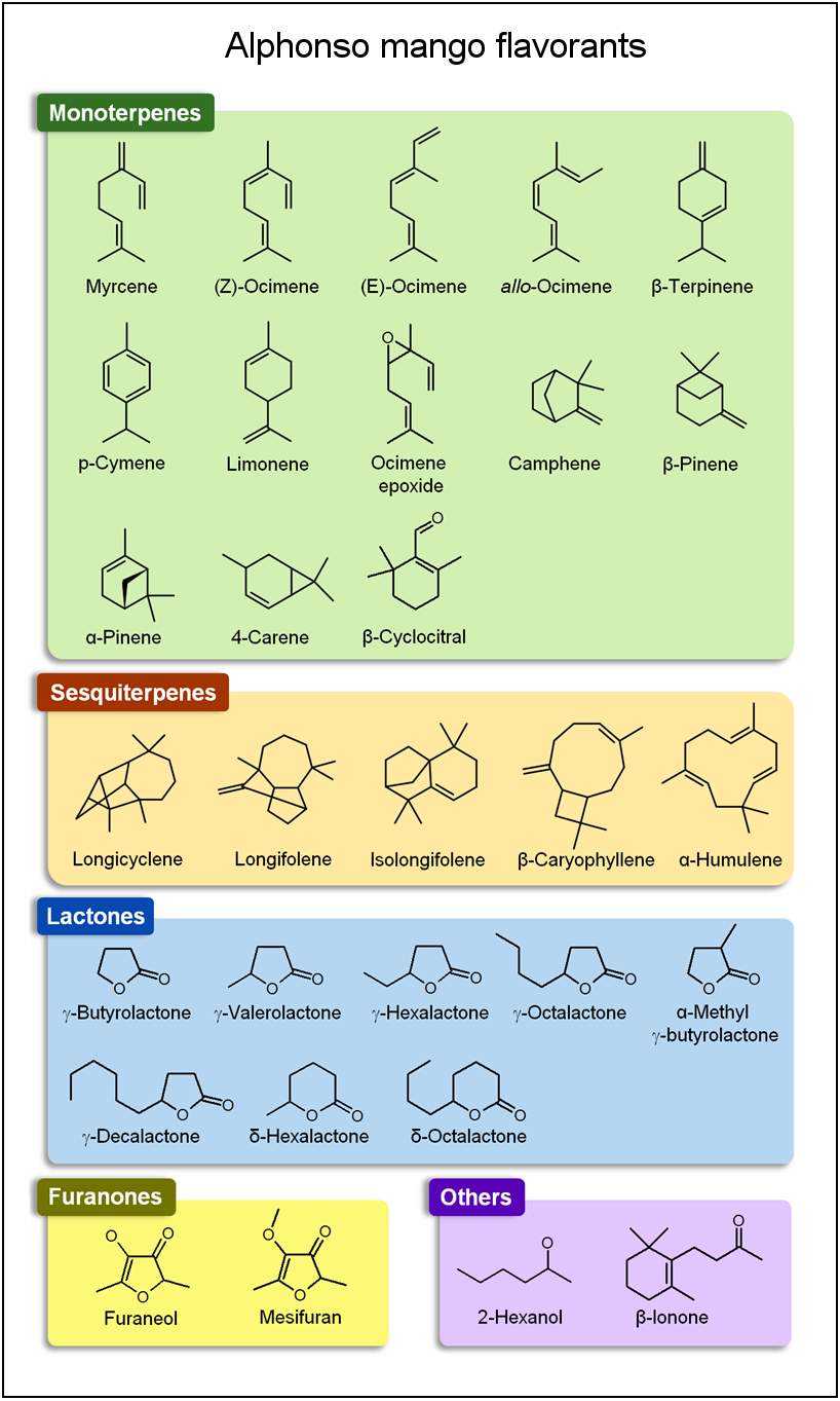 Flavor chemicals of "Alphonso" mango from India